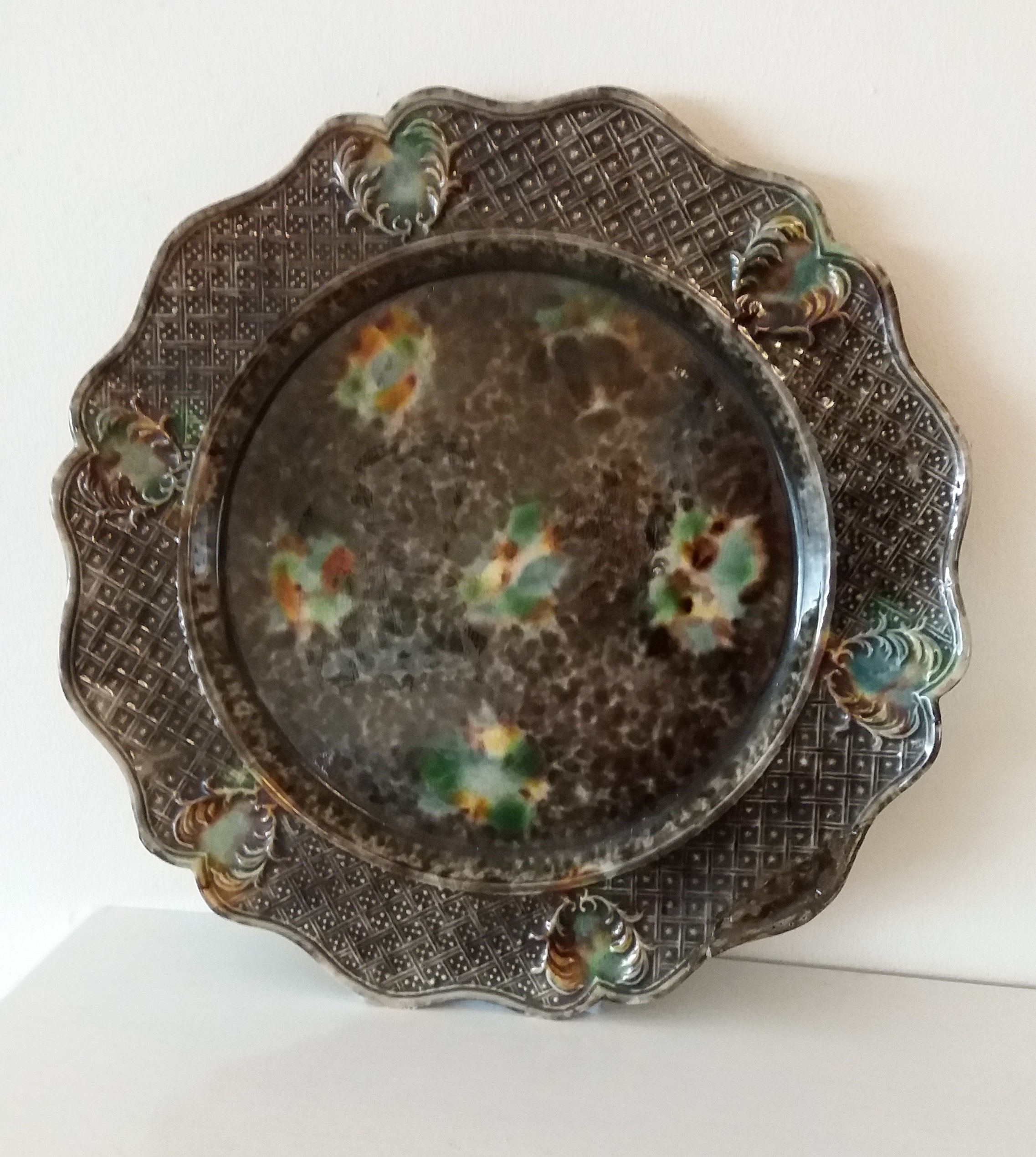 Thomas Whieldon: plate, private collection. Tortoiseshell-ware decoration c. 1760